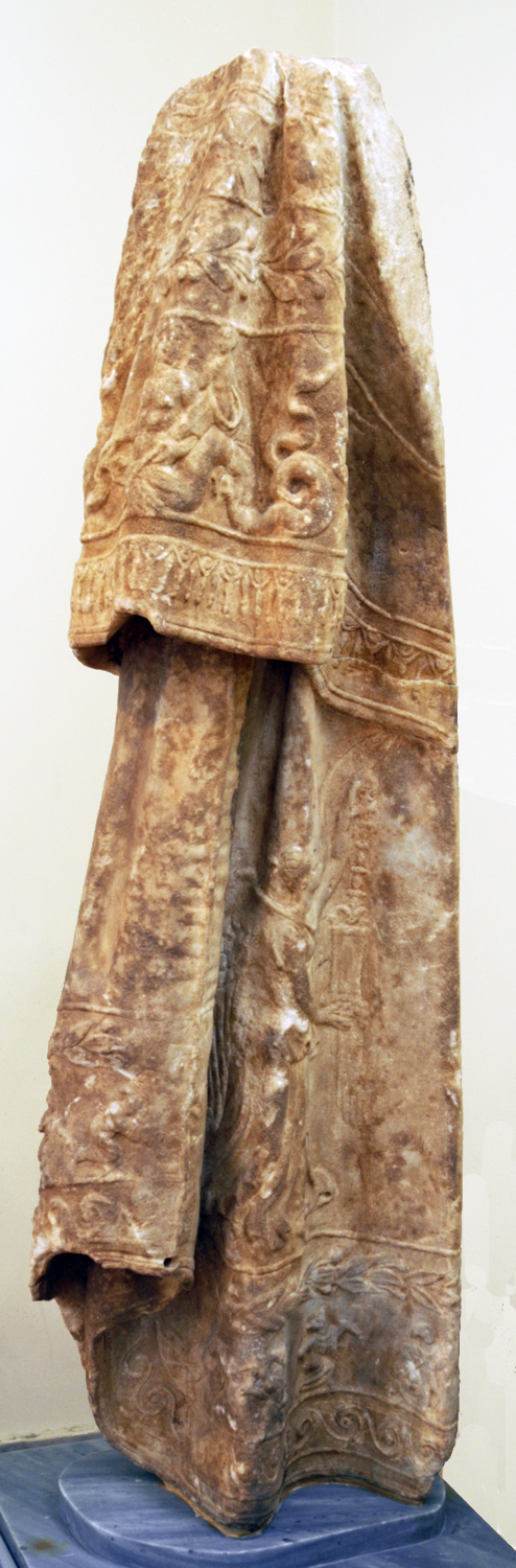 The Veil of Despoina. J. Matthew Harrington, personal digital image